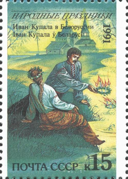 A USSR stamp